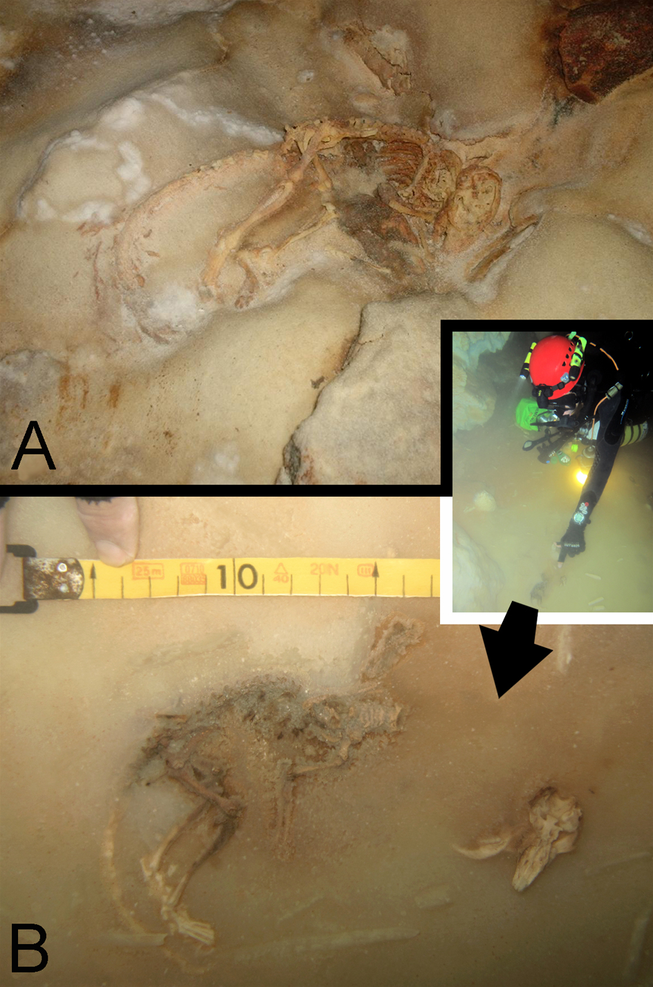 Articulated skeletons of Hypnomys morpheus covered by flownstone found in the Cova des Pas de Vallgornera (Llucmajor, Mallorca). A) Skeleton located in a dry passage of the cave. B) Skeleton found in the bottom of a lake (see diver in insert). Photos by G. Mulet (a) and M.A. Perelló (b).